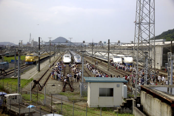 Sanyo Shinkansen Hiroshima Railyard, located just north of Yaga Station in Hiroshima, Hiroshima Prefecture, Japan.